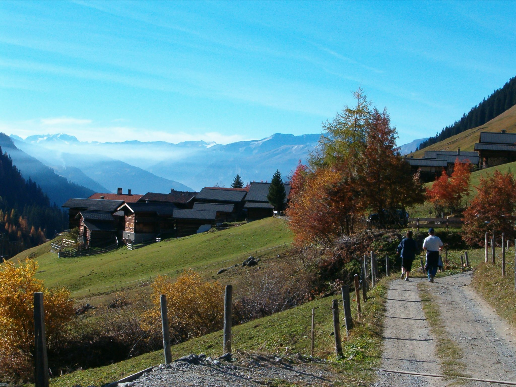 Sapuen Village at Langwies, Switzerland